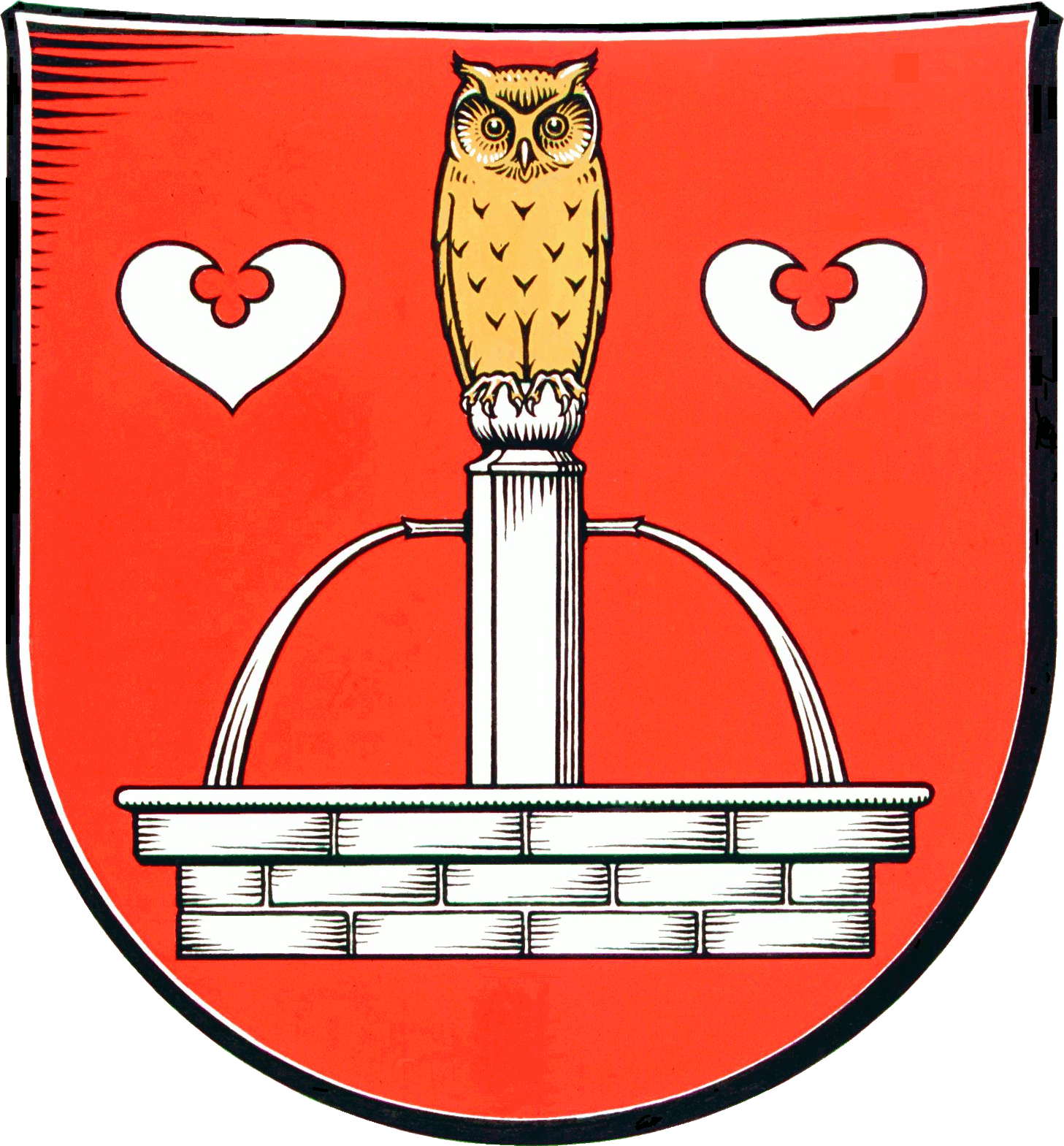 Coat of arms of Quickborn Blasonierung: In Rot auf einem silbernen Brunnenpfahl, der aus der Mitte eines rechteckigen, gemauerten silbernen Brunnenbeckens hervorwächst und nach beiden Seiten einen Wasserstrahl im Bogen in das Becken sendet, eine sitzende goldene Eule in Vorderansicht, begleitet von zwei silbernen Seeblättern.